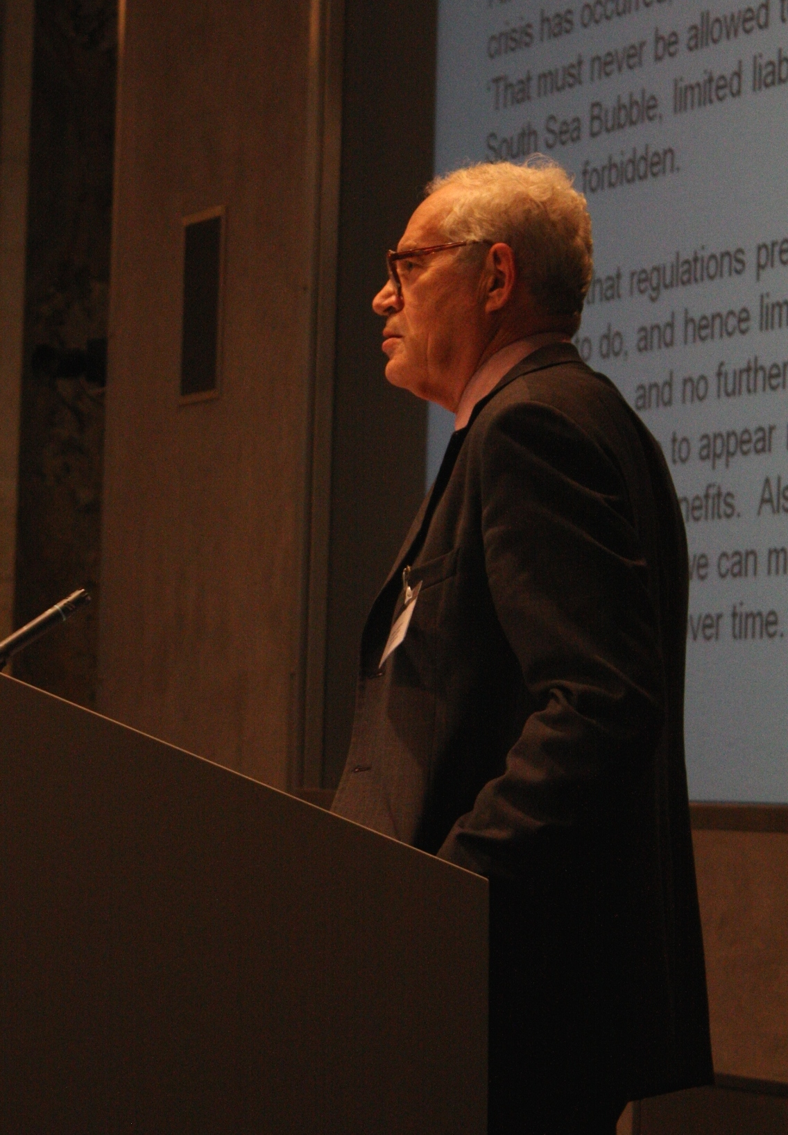 Charles Goodhart delivers the keynote speech in the 2012 Long Finance Spring Conference at Bank of America Merrill Lynch. The talk was entitled "Procyclicality of Financial Regulation: And how to deal with it" and the event was hosted in partnership with Gresham College.